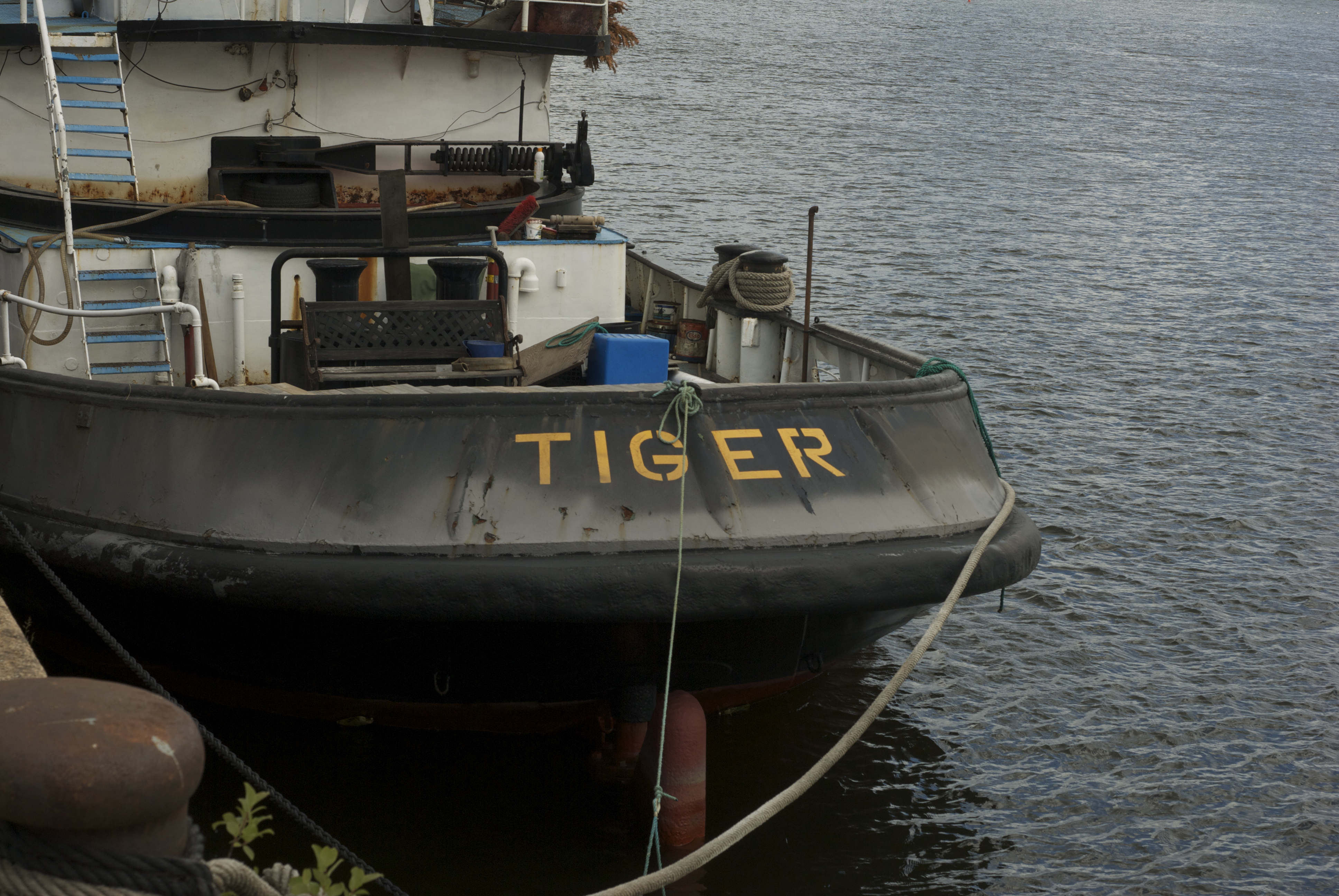 MS Tiger June 2011